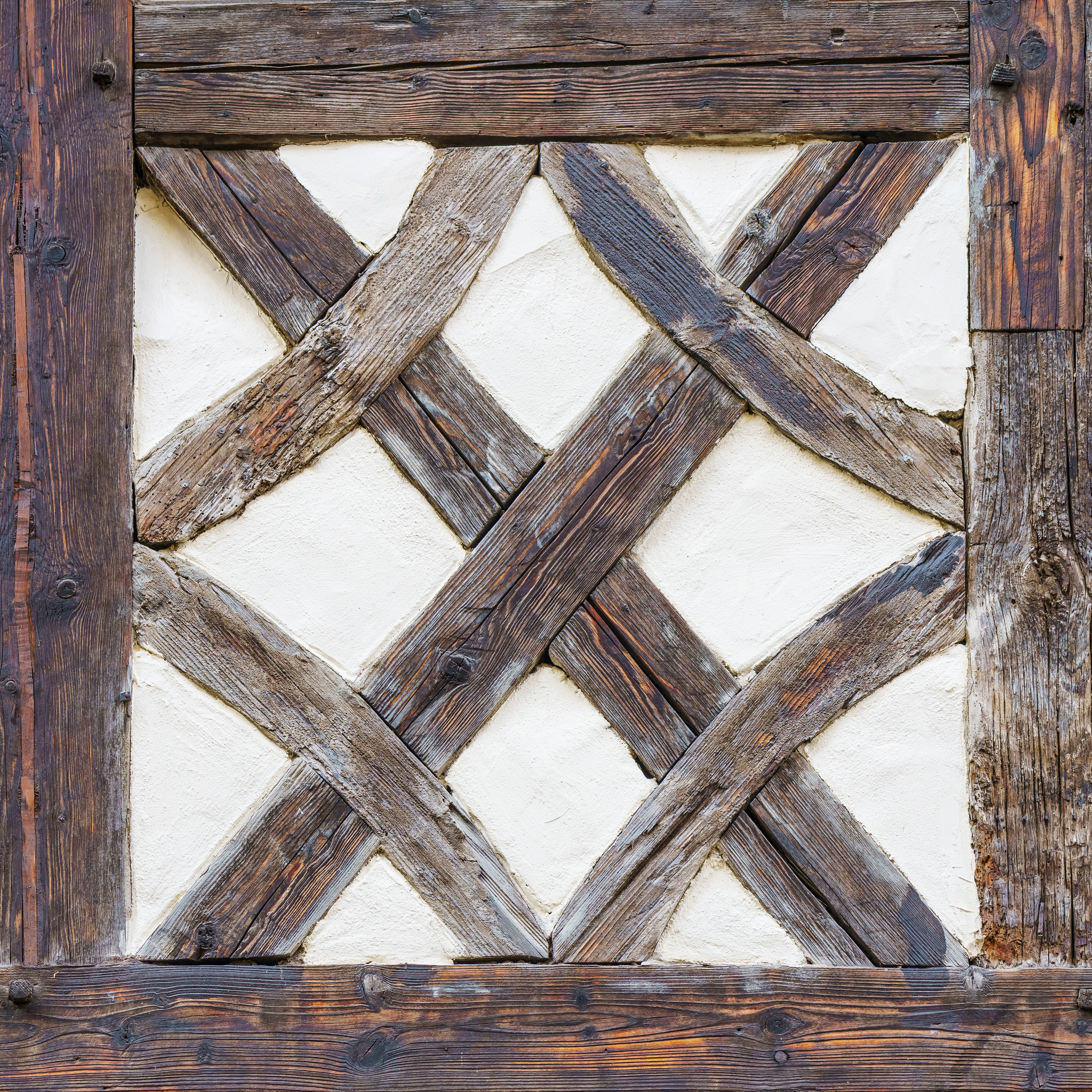 Detail of a house in the Old Town in Quedlinburg, Germany